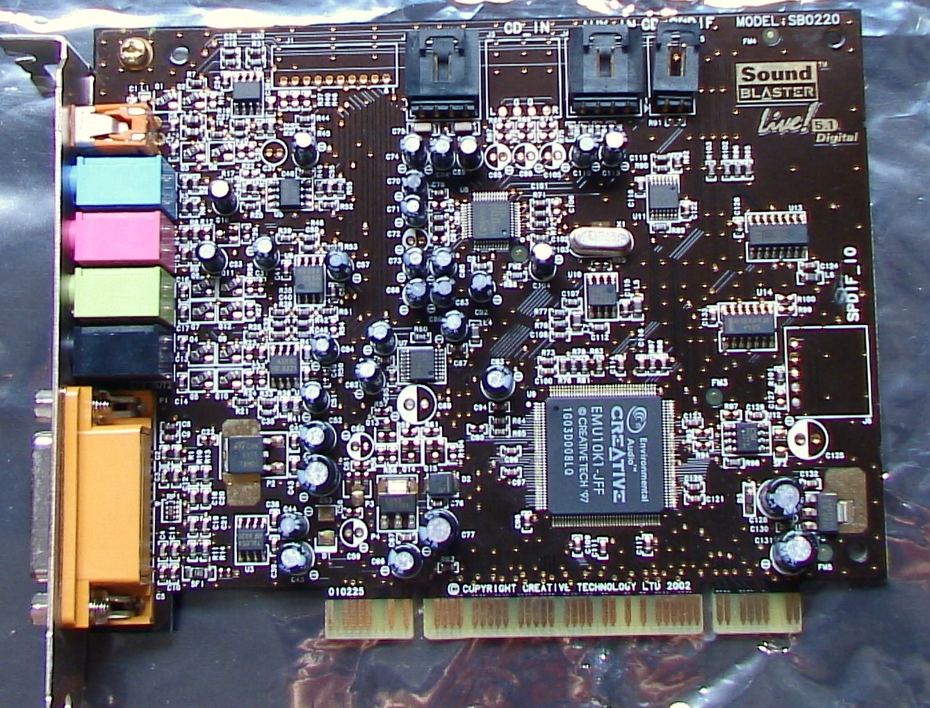 Sound Card Sound Blaster Live! 5.1 Model:SB0220